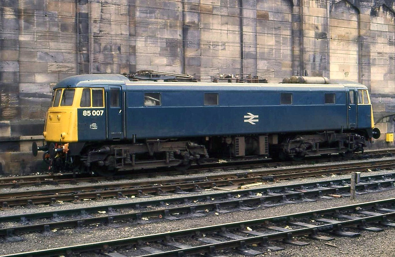 85007 Carlisle